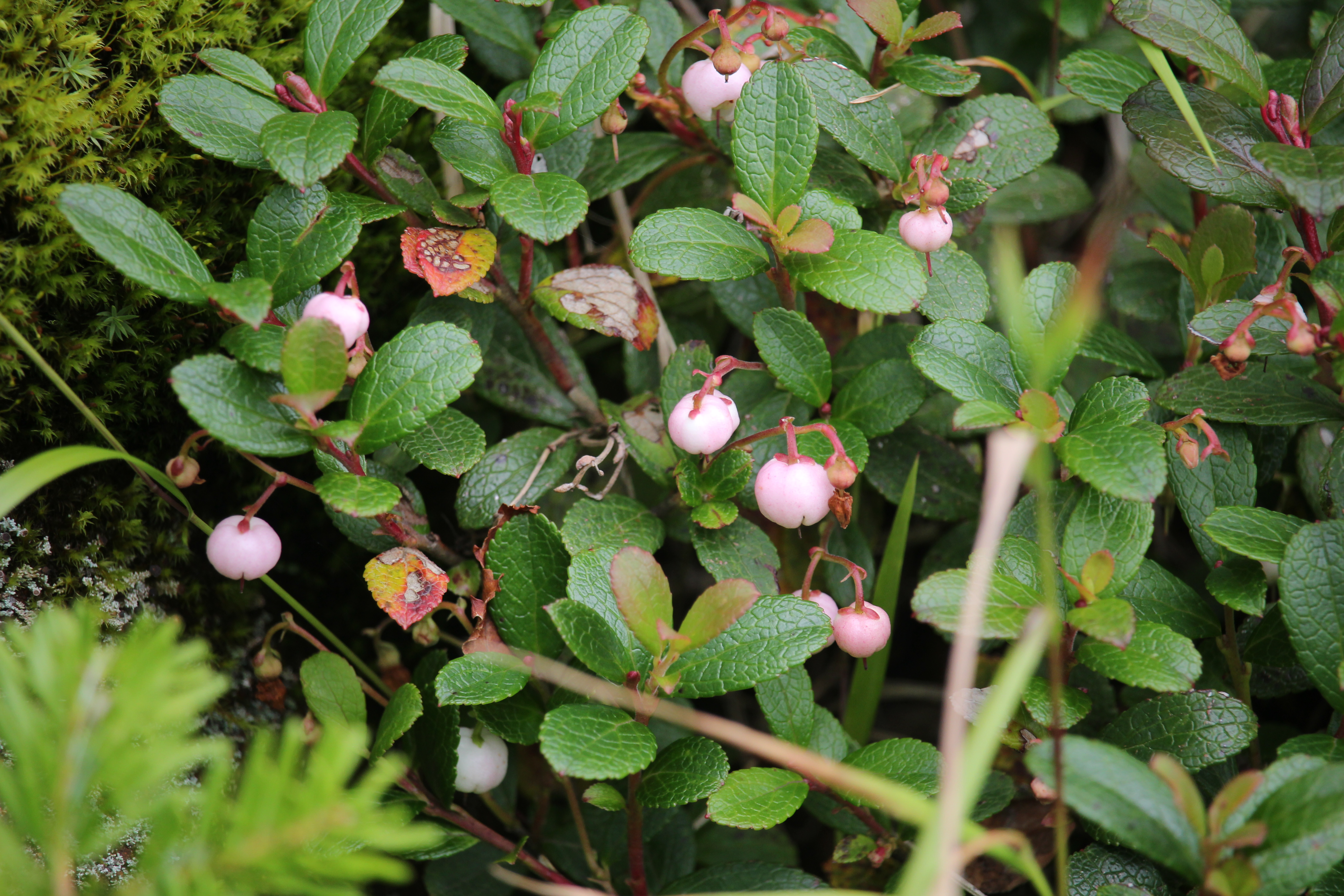 Gaultheria pyroloides in Mount Ontake, Japan.